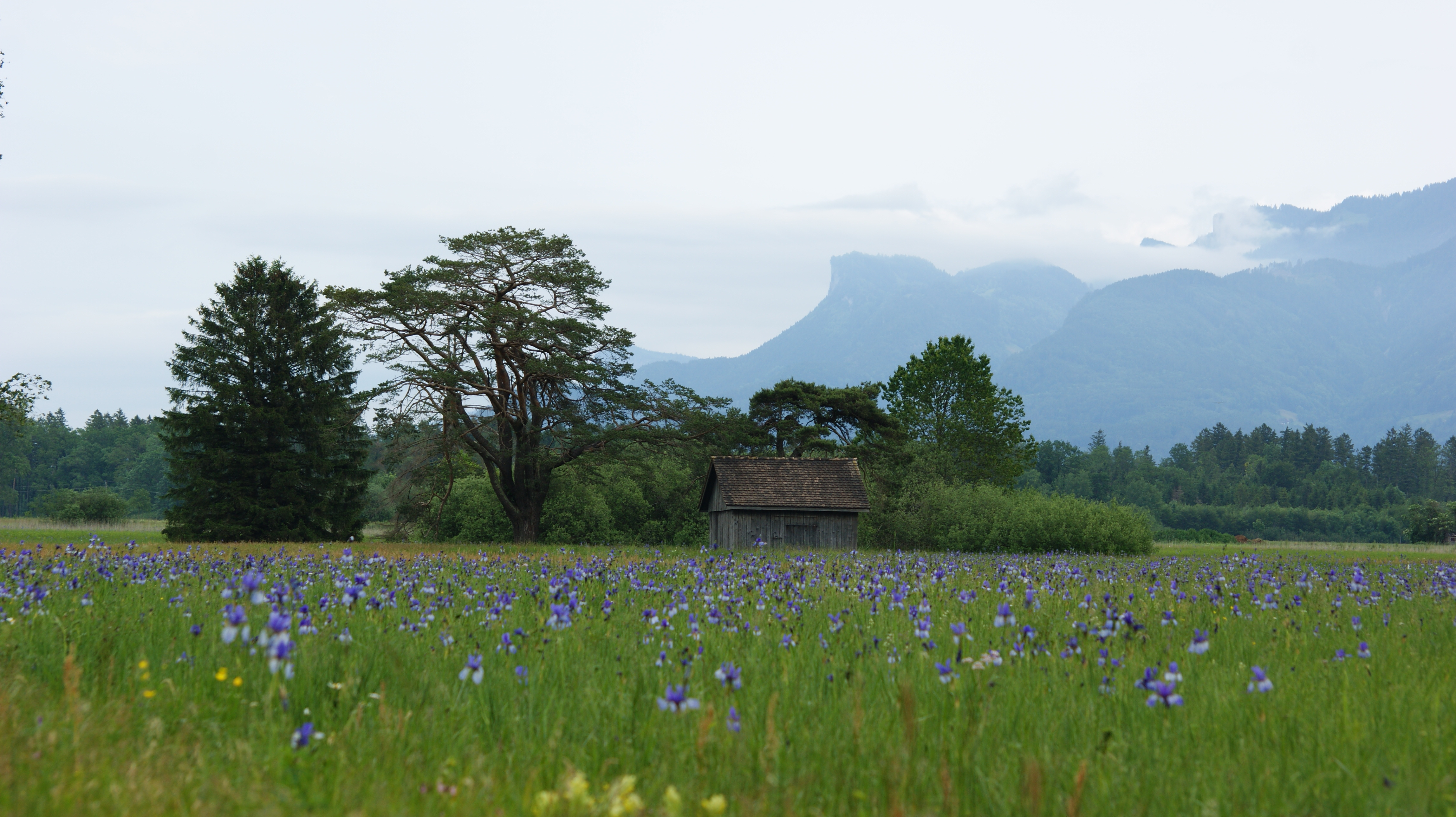 Ruggeller Riet (also “Ried”, meaning: reed) in Ruggell, Principality of Liechtenstein. Impressions.